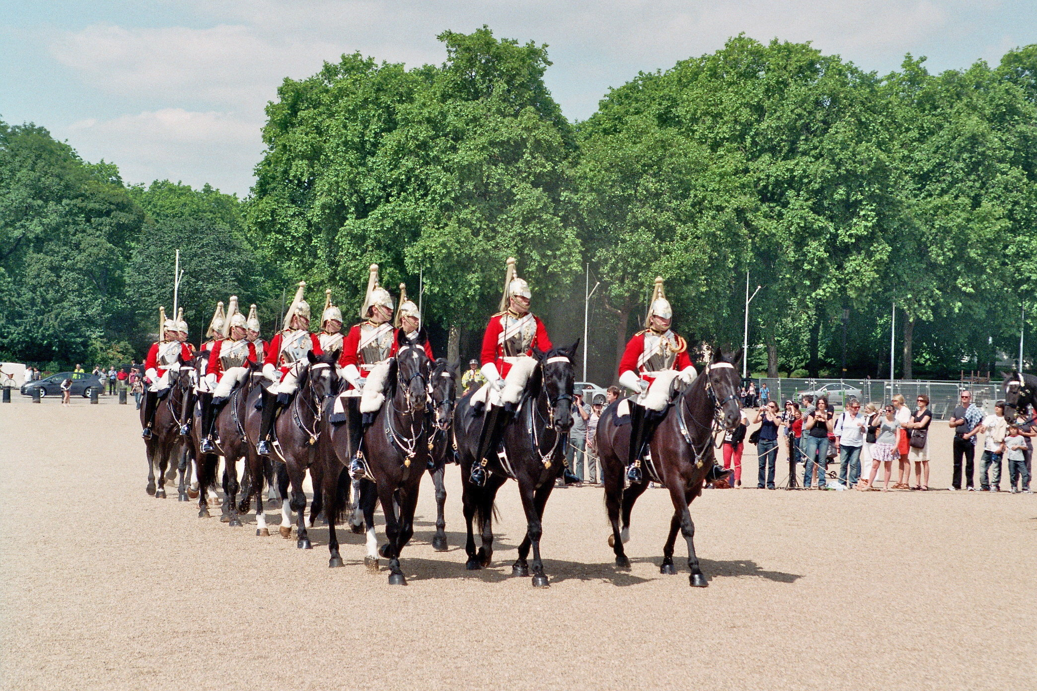 Life Guards in London, UK